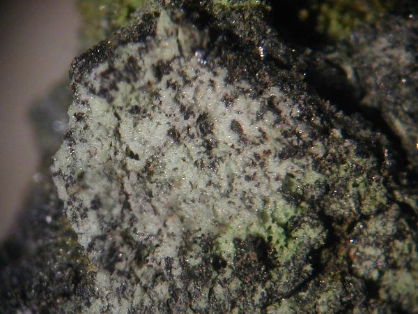 Periclase, Srebrodolskite (Picture size 5 mm) Fundort: Ronneburg, Thuringia, Germany White to light greenish Periclase with black Srebrodolskite. Collection and foto Thomas Witzke.